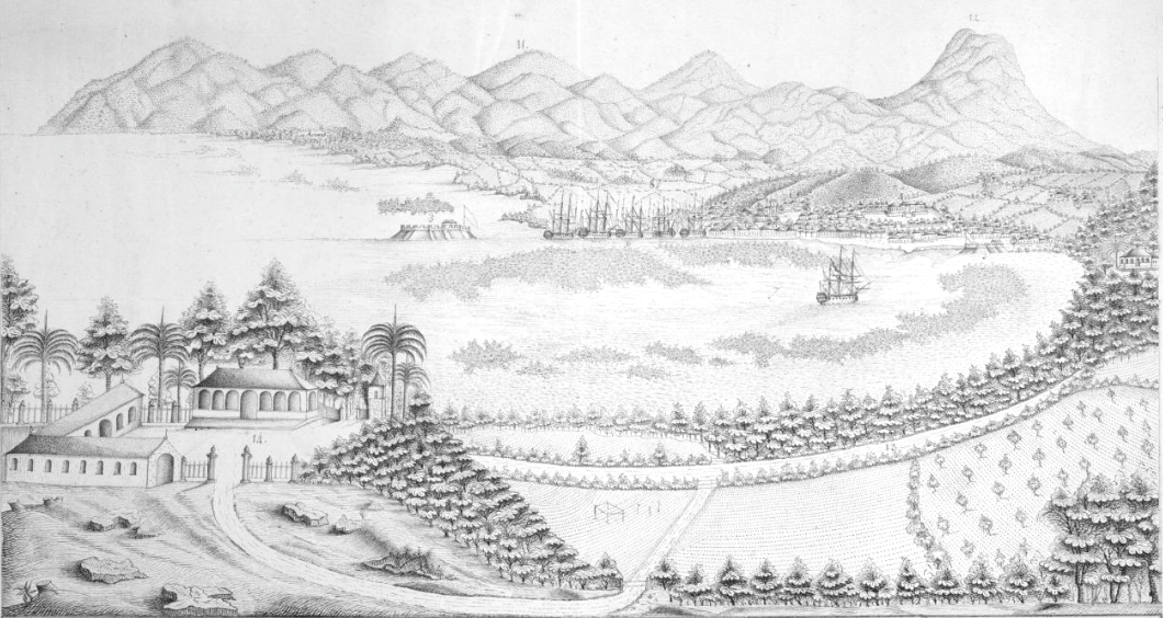 Vue de Port-au-Prince et ses environs Date: ca.1800 Dimensions: 28.0 x 49.0 cm. DESCRIPTION: "This landscape view provides an elevated perspective of the harbor of Port-au-Prince, the capital city of Haiti. The view is from south to north, with the bulk of the developed town on the northern side of the harbor. In the background at the left is Fort Joseph, later known as Fort Dauphin or Fort Liberte. In the foreground is the palatial residence of the marine commissar, one Monsieur Mardssaux. The reference to this "Commissaire de la marine," a French military post, suggests that the image was created before Haiti's independence from France in 1804. The title and legend at the bottom of the image were added by hand, and include references to forts, "quarters," roads, and plazas in and around Port-au-Prince. Circa 1800."